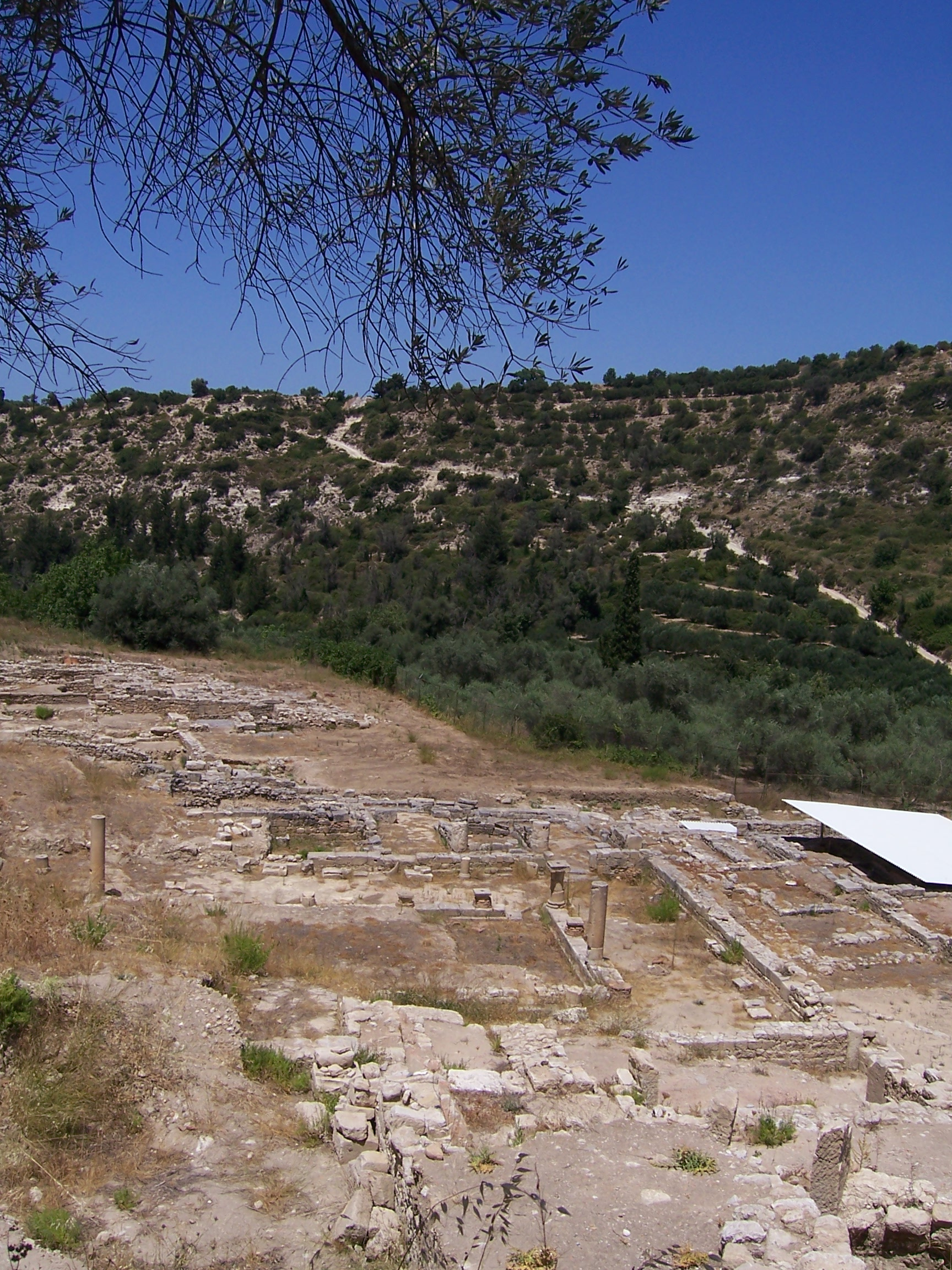 Eleftherna. Eastern part (Crete, Greece)